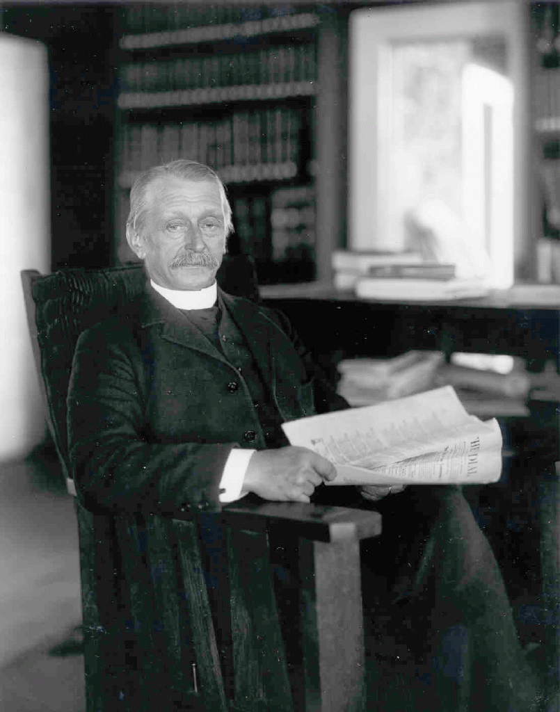 This picture of Jacobus Cornelius Kapteyn was made at the Monastery (the residence of visiting astronomers) at the Mount Wilson Observatory during one of Kapteyn's annual visits in 1908. Kapteyn is holding a copy of the literary magazine "The Dial".